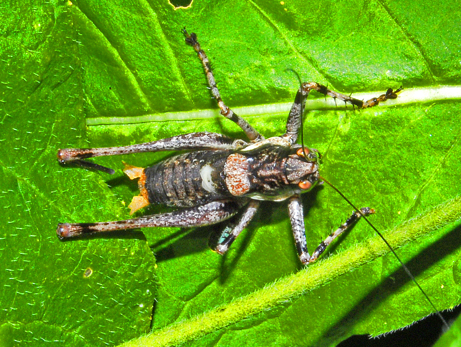 Antaxius pedestris. Male, dorsal view. Val di Rhemes, Aosta, Italy